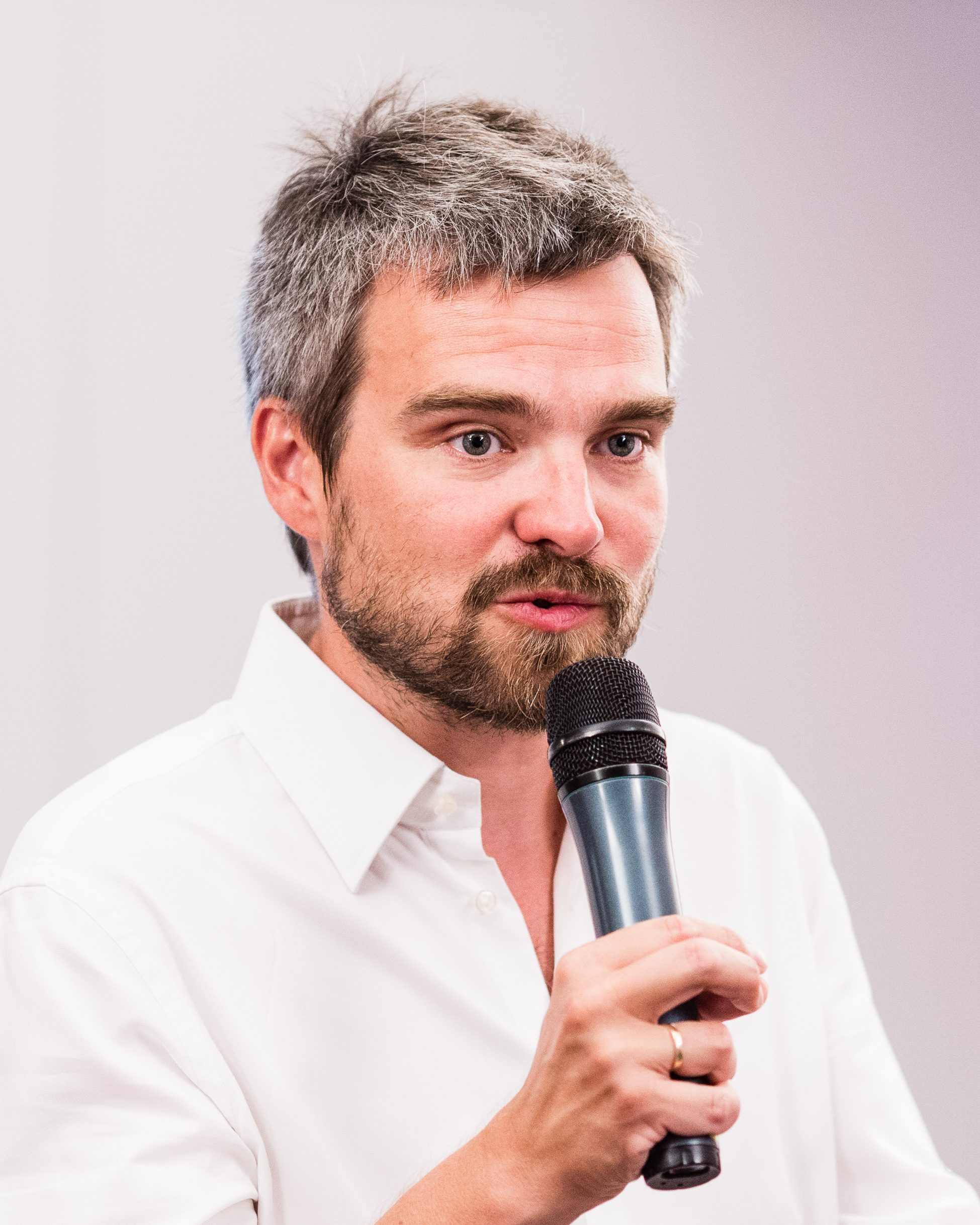 Zygmunt Miłoszewski on Authors’ Reading Month 2019, Wrocław, Poland